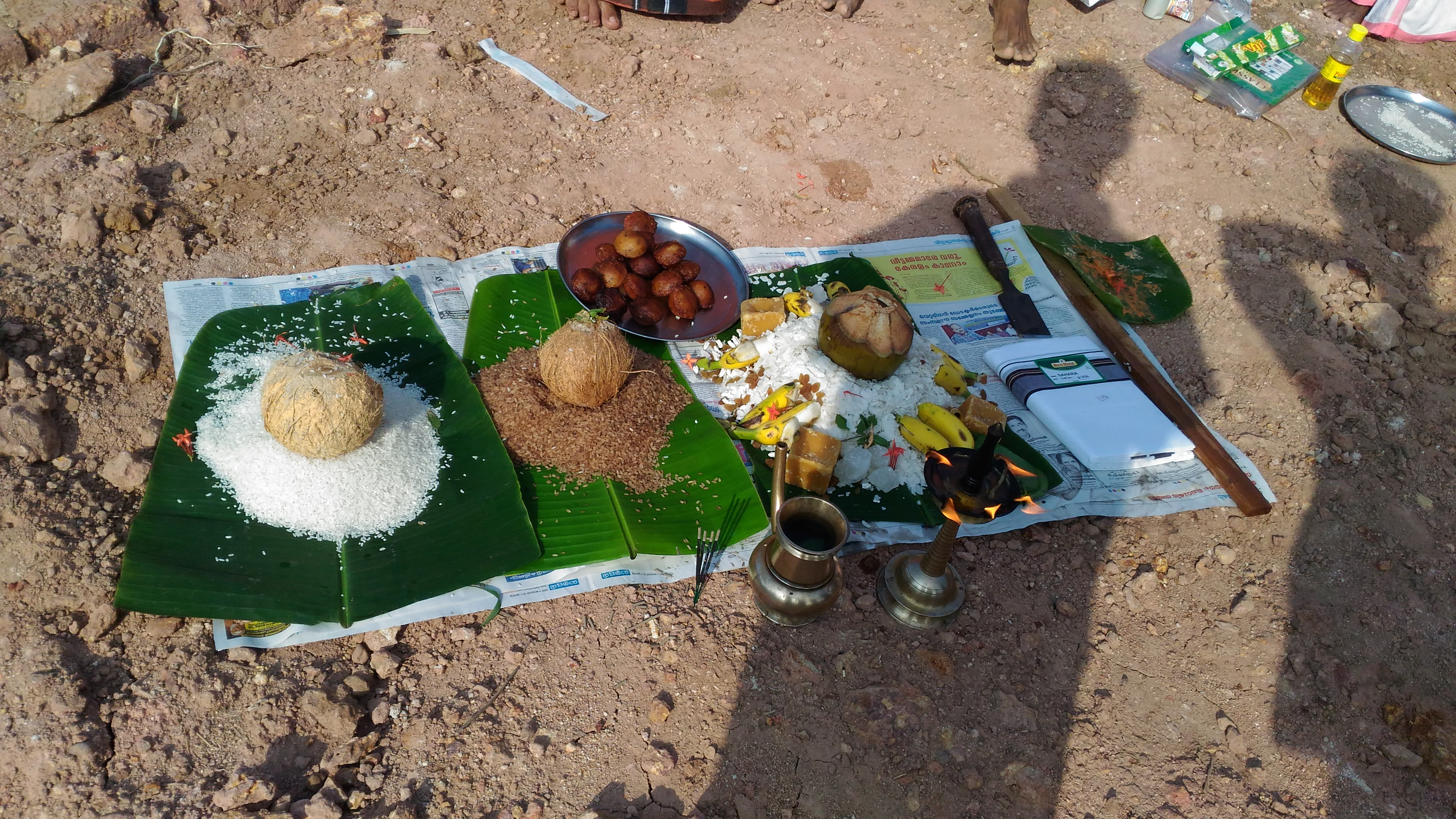 Ganapathy pooja